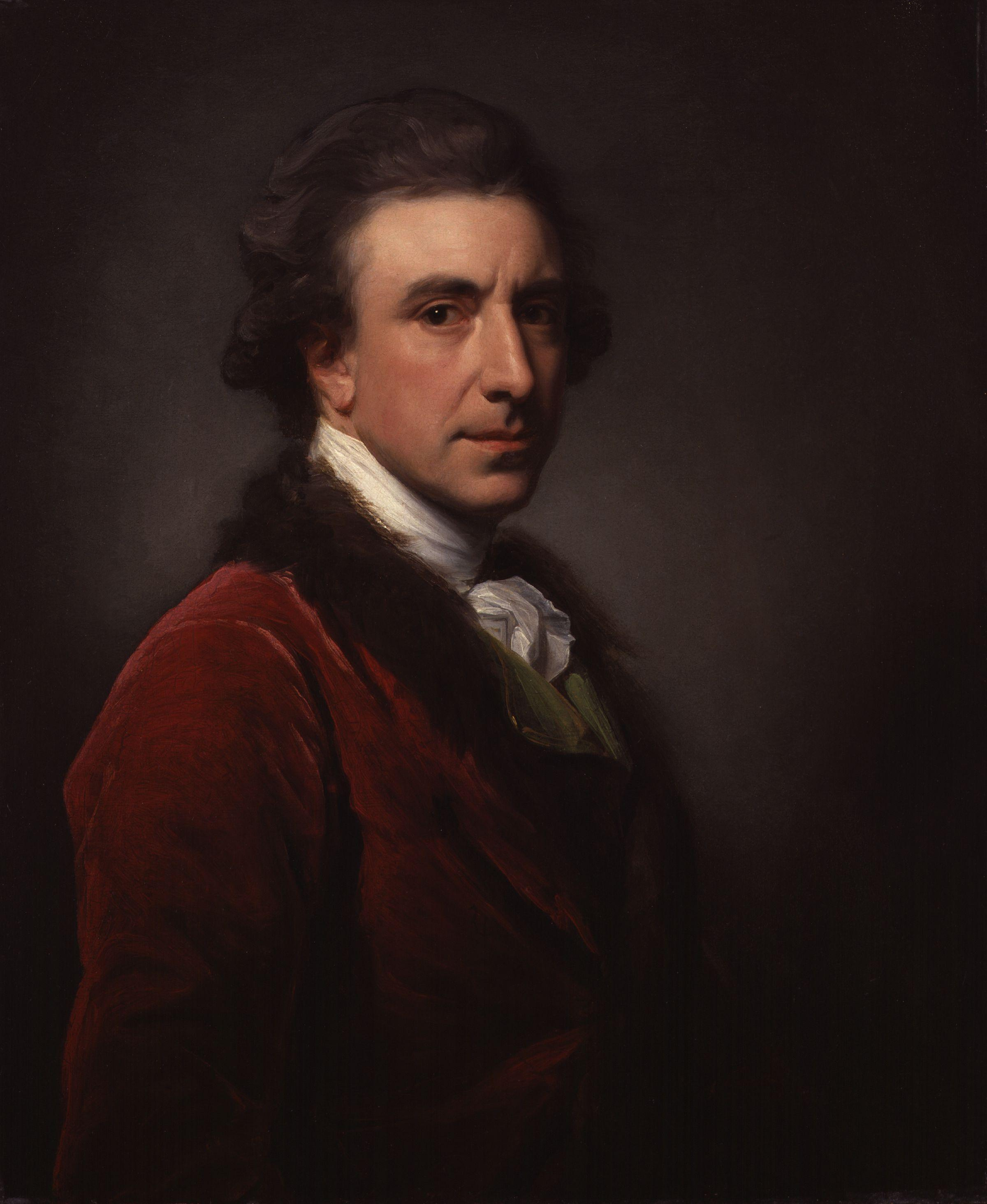 Nathaniel Dance (Sir Nathaniel Dance-Holland, Bt), by Nathaniel Dance, (later Sir Nathaniel Dance-Holland, Bt) (died 1811). All images in this batch have been confirmed as author died before 1939 according to the official death date listed by the NPG.